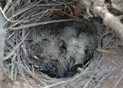 Colour-ringed Razo Lark (Alauda razae) chicks.